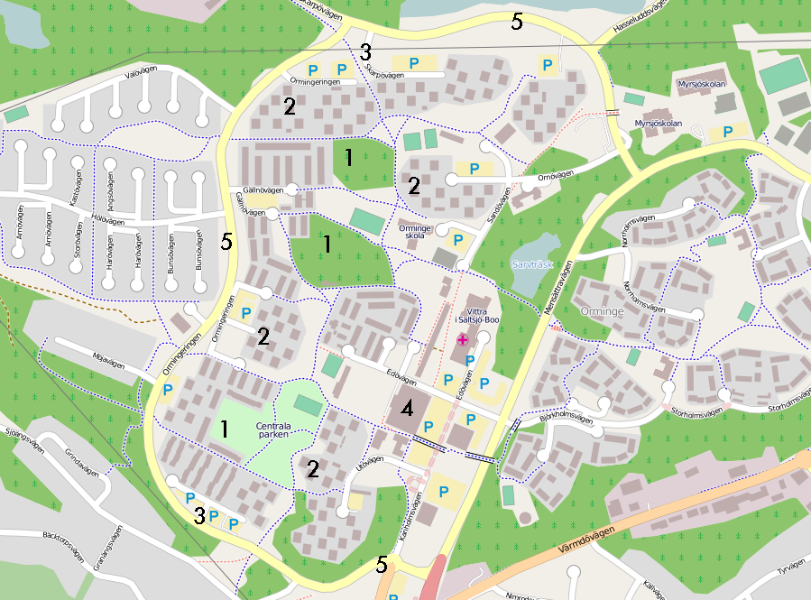 Västra Orminge. 1) Inner green zone; 2) residential zone with no traffic; 3) dead-end streets into parking zone; 4) commercial center; 5) ring road. See also Million Programme